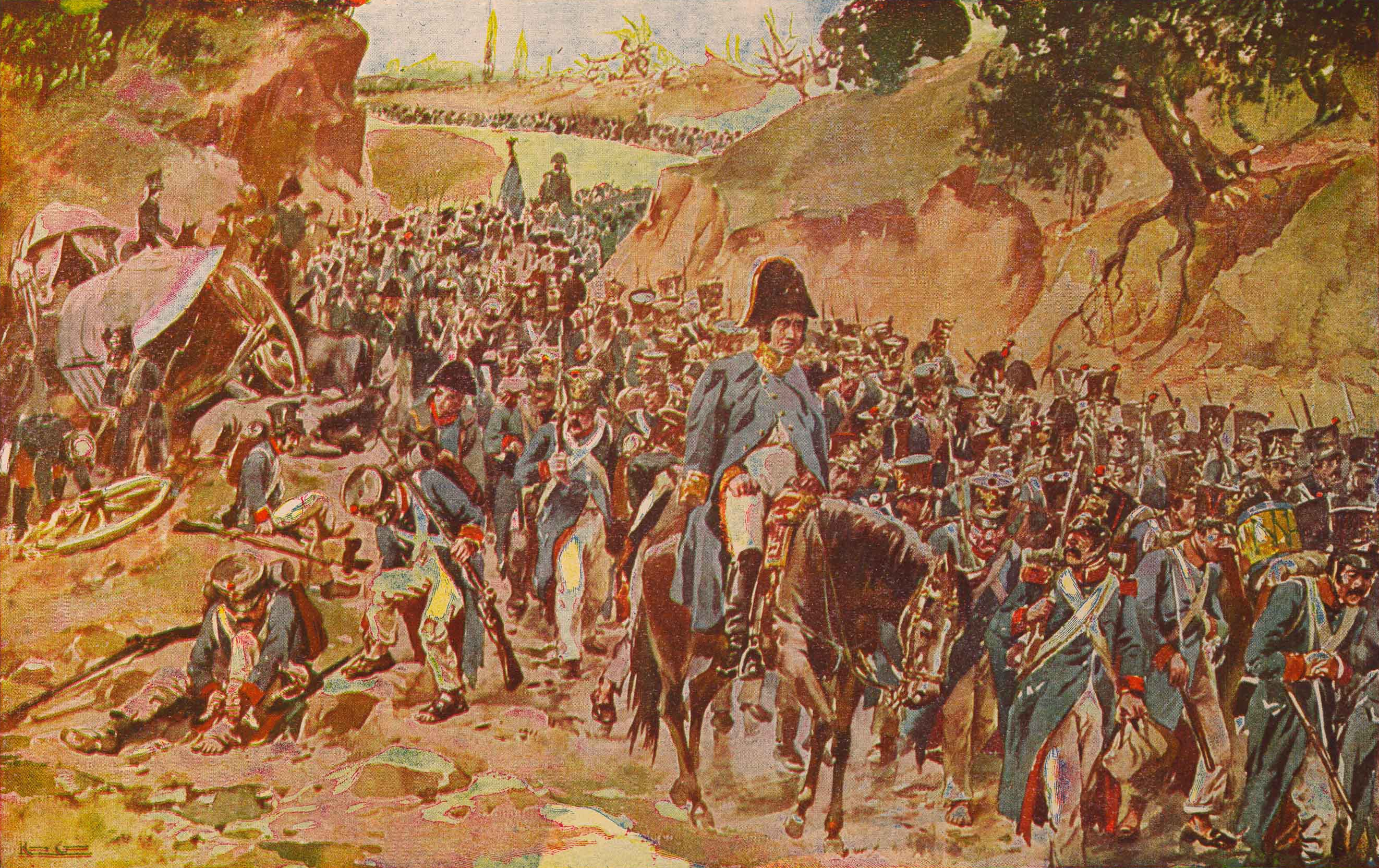 "The First French Invasion", by Roque Gameiro, in Quadros da História de Portugal ("Pictures of the History of Portugal", 1917).